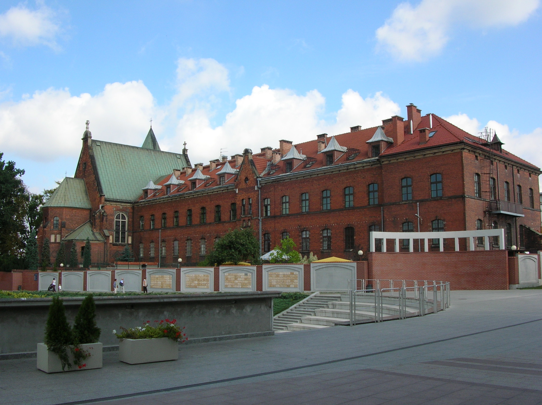 Convent of The Congregation of The Sisters of Our Lady of Mercy in Kraków-Łagiewniki